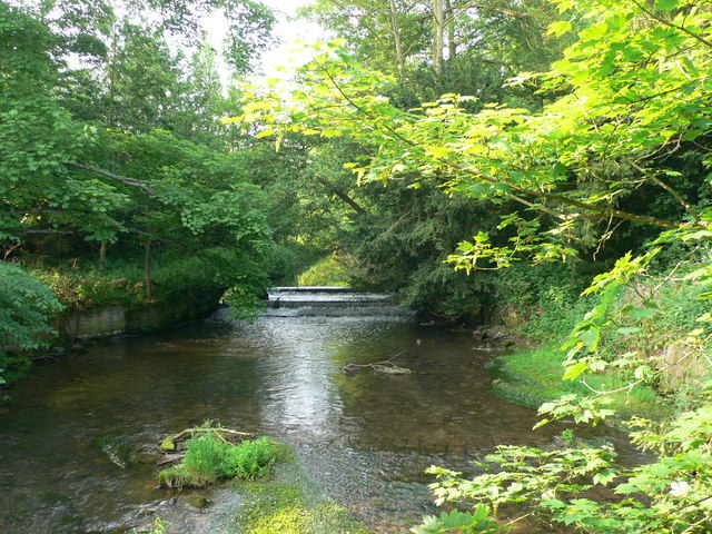 Cound Brook, Longnor, near to Longnor, Shropshire, Great Britain. Looking south from Longnor Bridge.